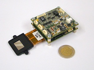 WXGA-R5 microdisplay from Forth Dimension Displays compared to a 1 euro coin